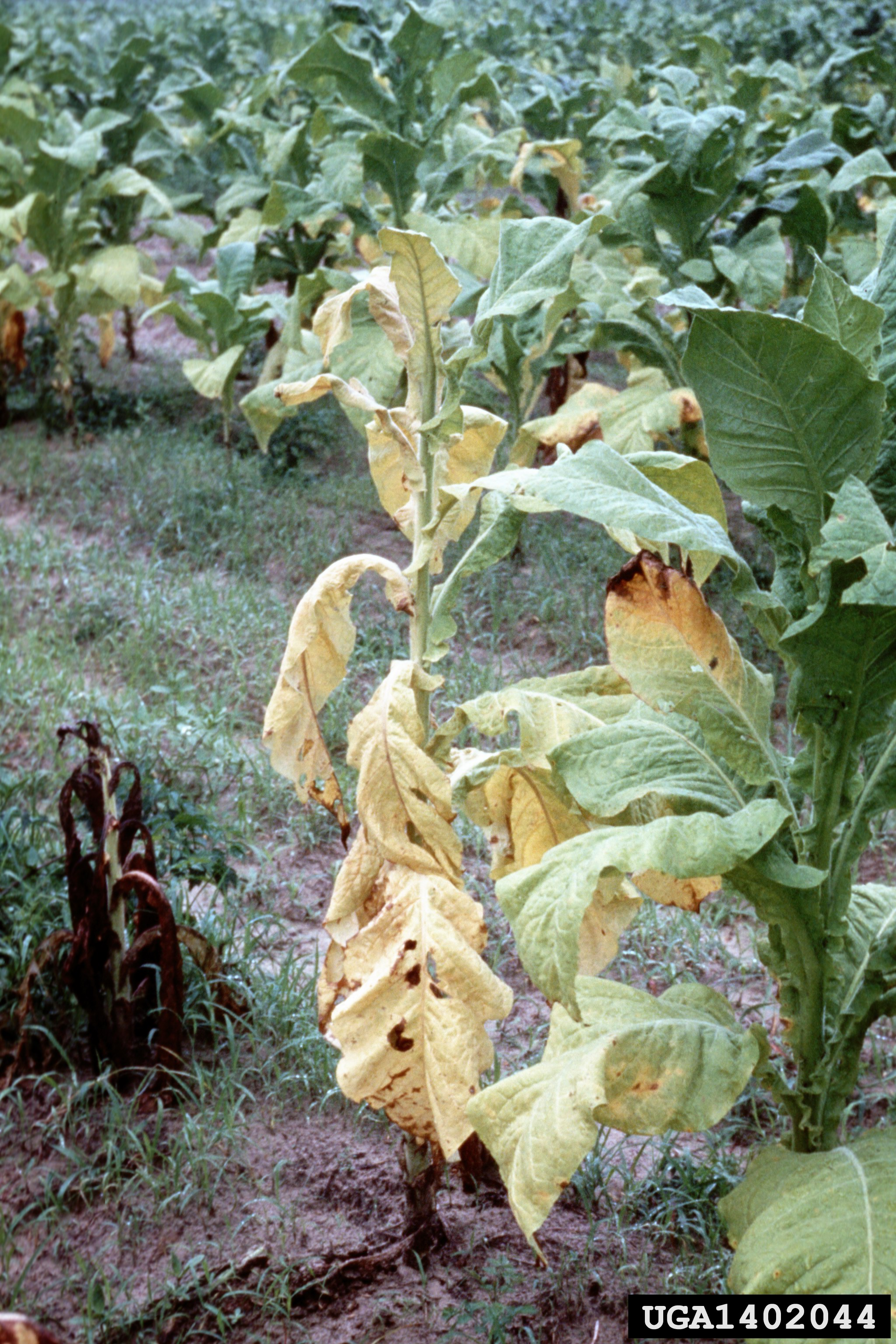 Photo of symptoms of Fusarium wilt in a tobacco plant